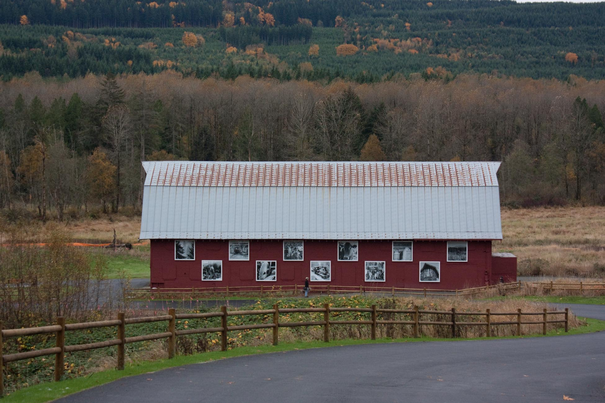 Site History Quilt installation by Site Story features a pictorial history of the site from forest to mill to dairy farm to recreation.